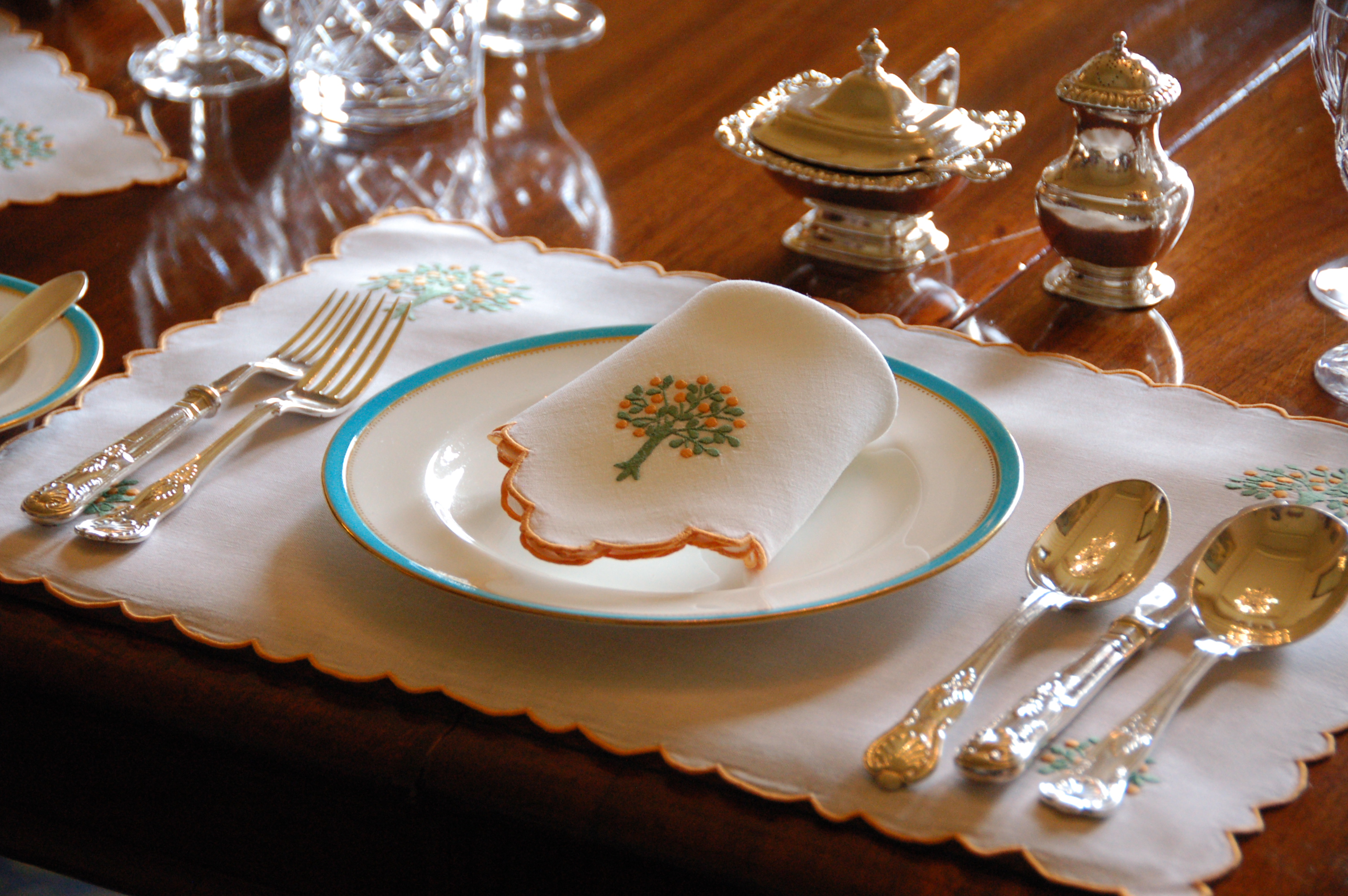 Fine Cutlery